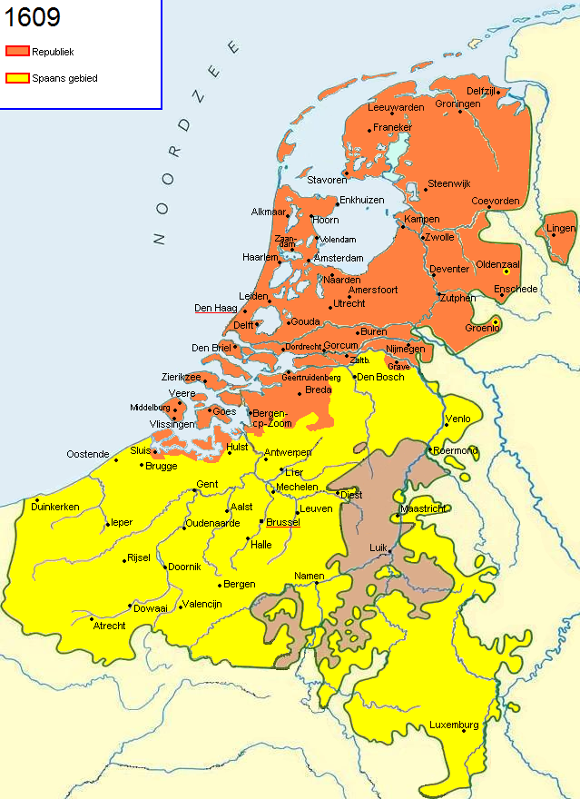 The Netherlands at 1609 at the start of the Twelf Years Truce